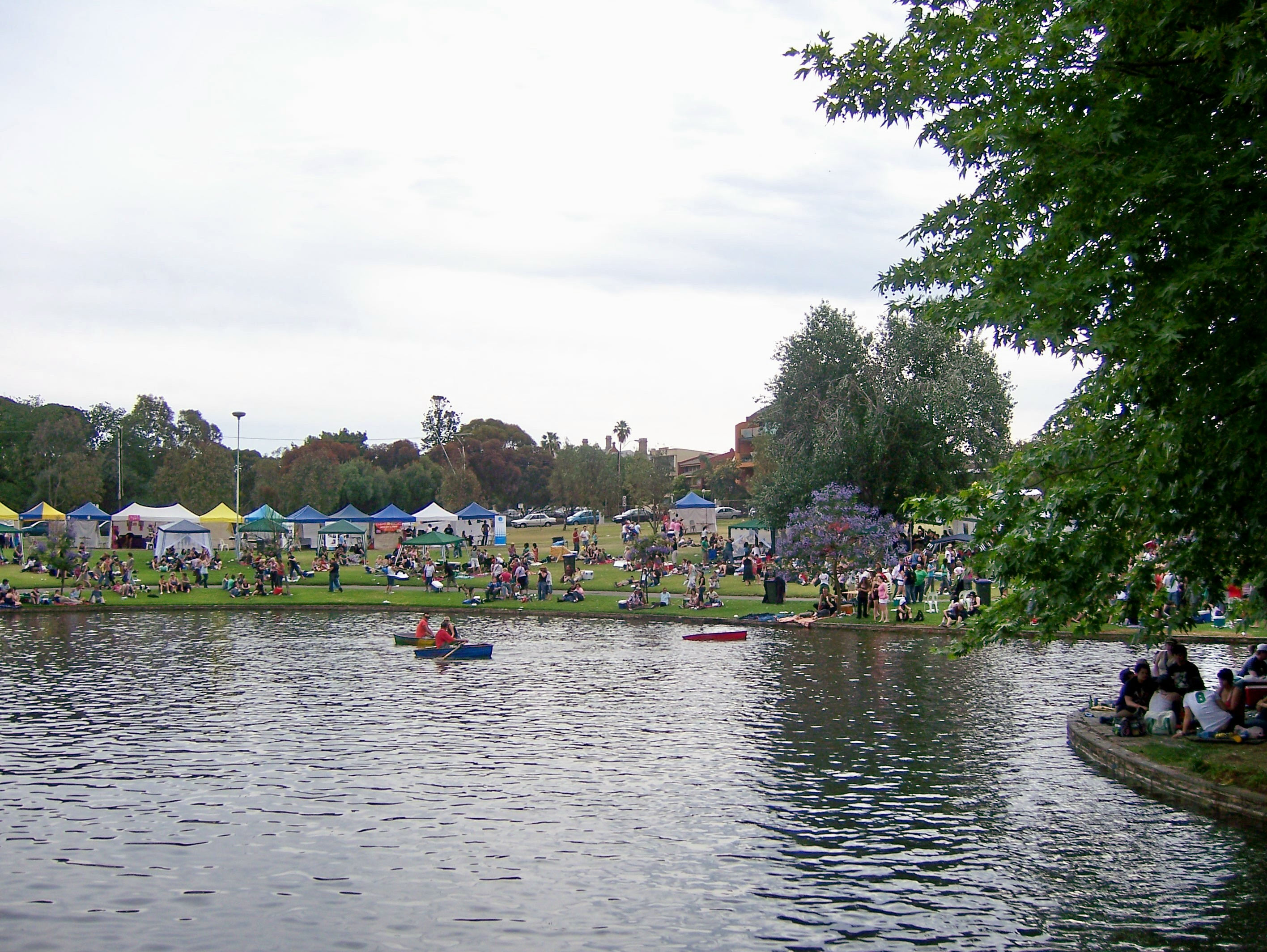 The Feast Festival 'Picnic in the Park' around Rymill Lake